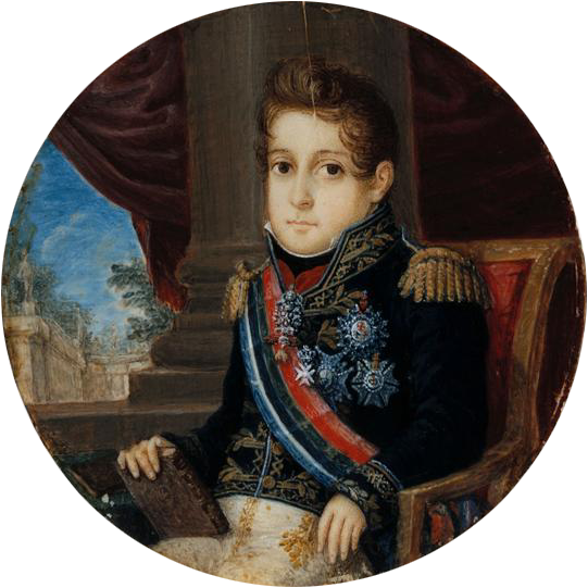 Emperor Dom Pedro I of Brazil (and King Dom Pedro IV of Portugal) around age 11, c.1809. This is possibly a non-contemporary portrait. It is located in the Museu Nacional de Arte Antiga.